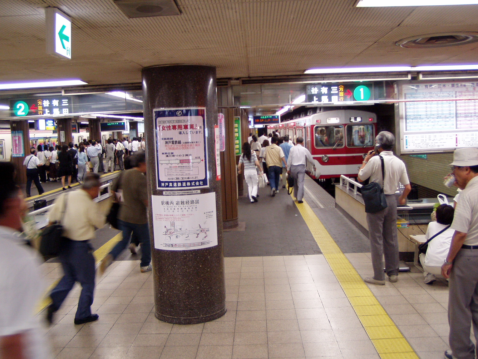 Kobe. Shintetsu platforms at Shinkaichi station on Kobe Kosoku.